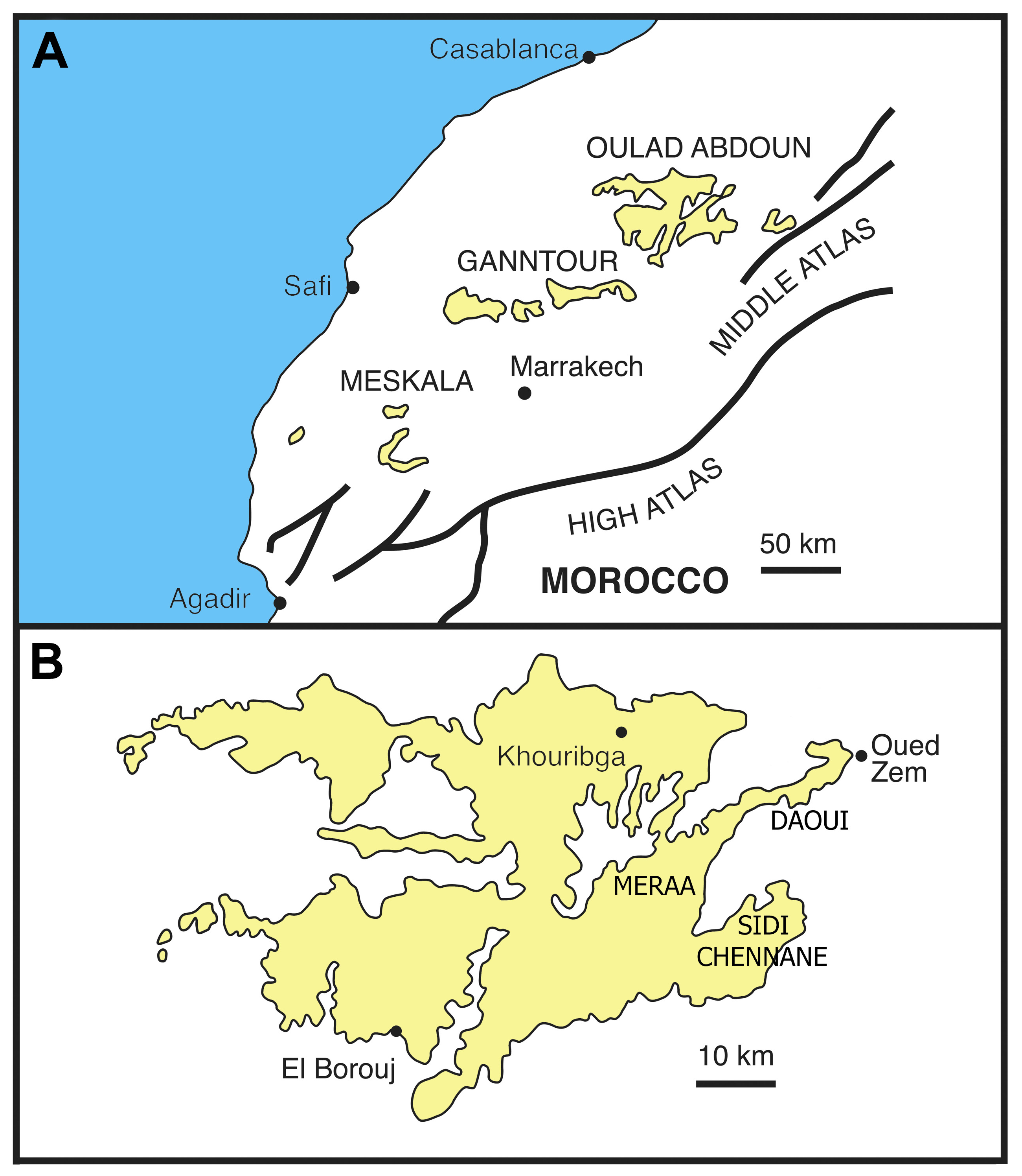 A. General geographical map of Morocco showing the main phosphatic basins (Ganntour and Oulad Abdoun basins). B. details of the Oulad Abdoun Basin with some major northeastern excavation areas (Daoui, Meraa El Arach, Sidi Chennane)